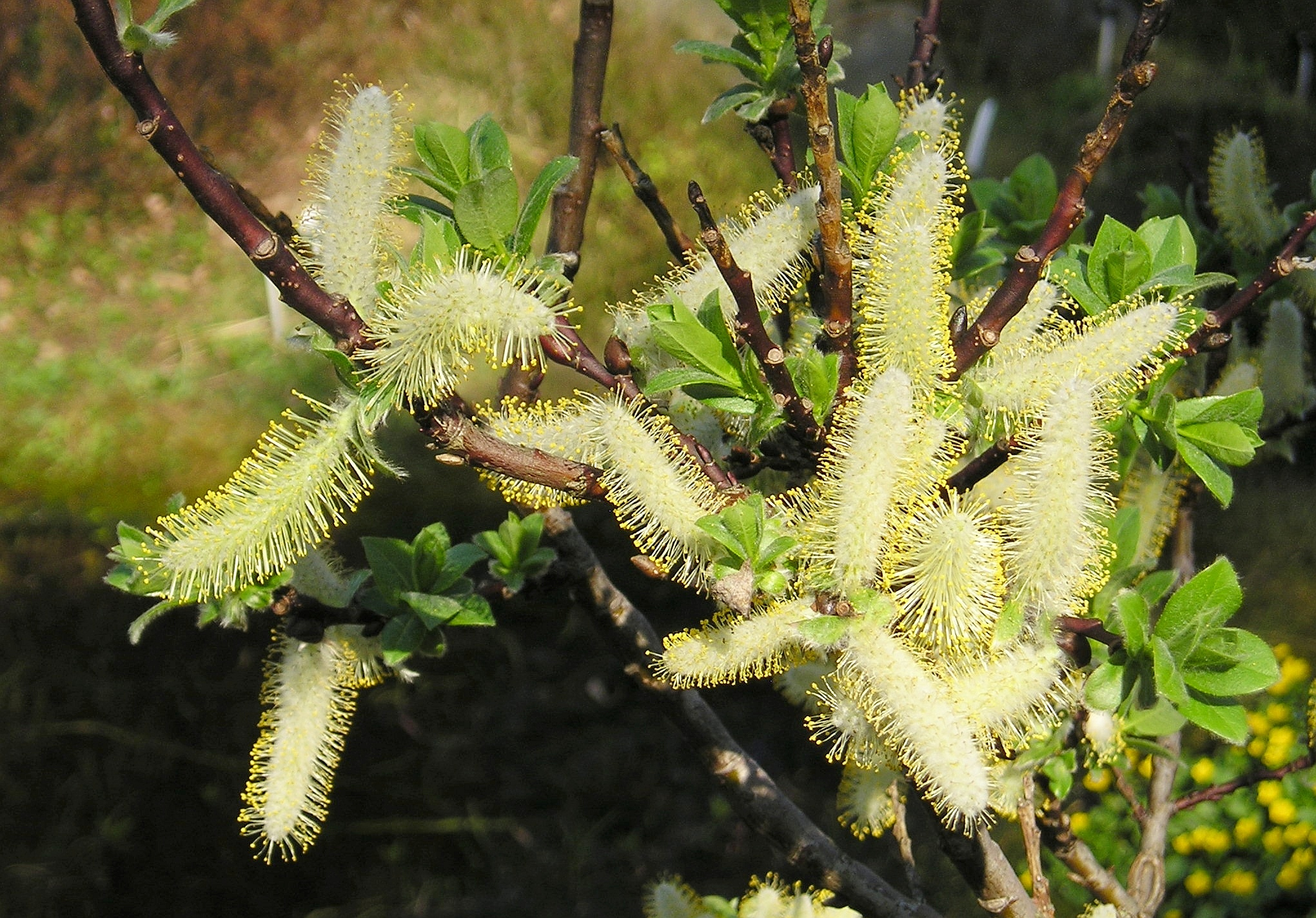 Spieß-Weide (Salix hastata) Botanischer Garten TU Dresden, April 2009 Creative Commons Licence BY 2.0 Quellenangabe / Credit: Photo by Maja Dumat